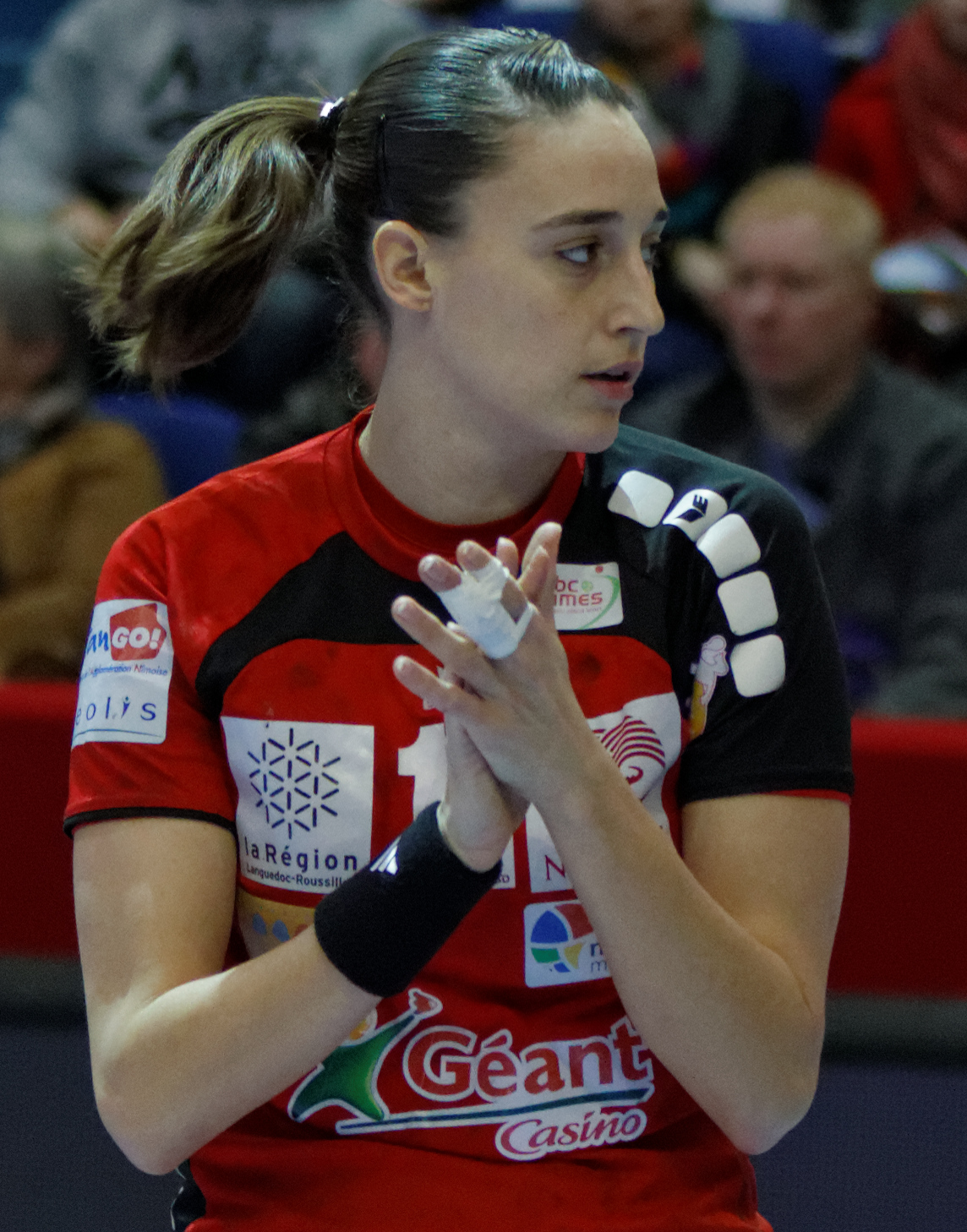 Final of the Women's handball French cup 2013. Handball Cercle Nîmes vs Issy Paris Hand, stadium Pierre-de-Coubertin at Paris.